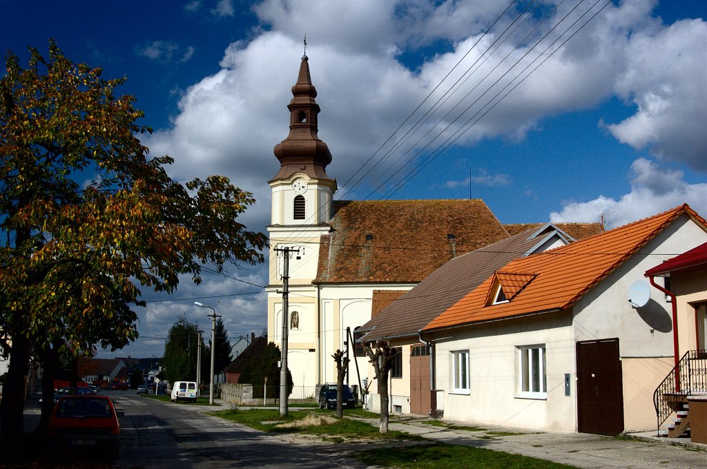 Church in Šaštín-Stráže